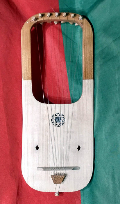 Anglo-Saxon lyre built by Jo Dusepo.